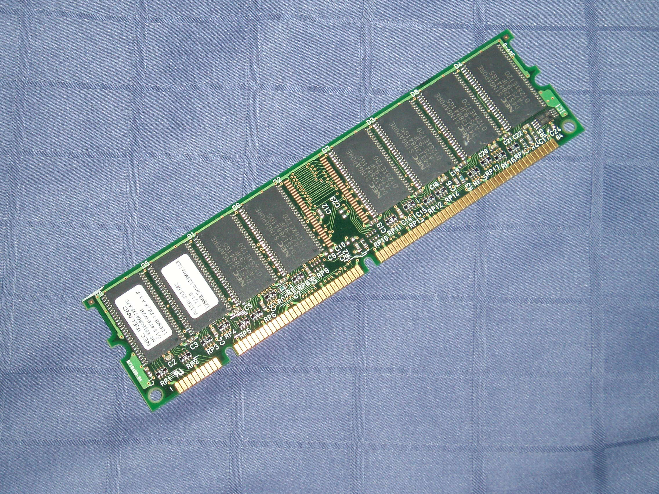 Photographed by Liam Adlen NEC 128Mb SDRAM